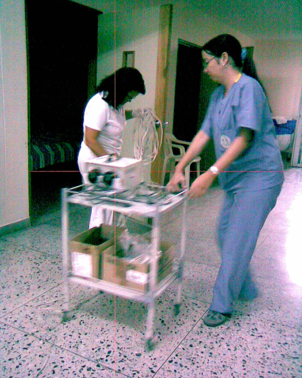 pontificia universidad javeriana faculty of medicine '10